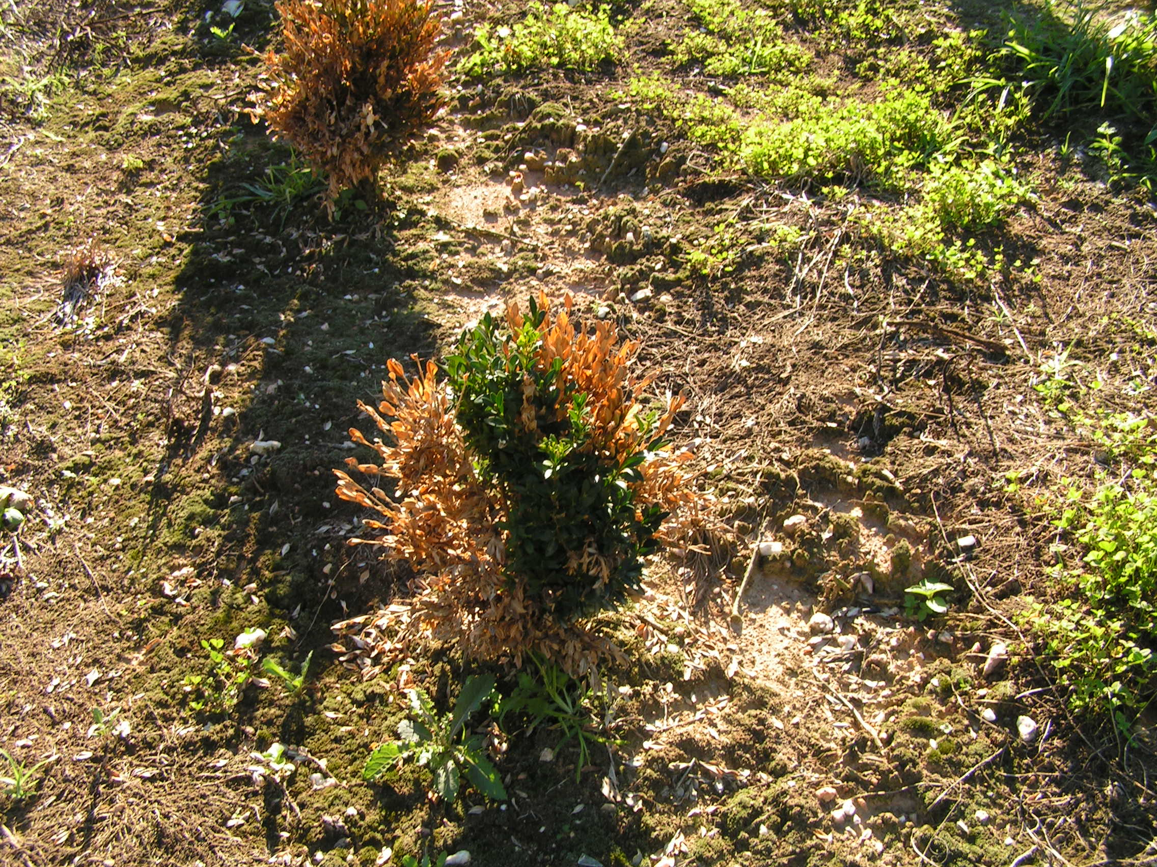 This image shows Black Shank (Phytophthora nicotianae) infections on American Box wood (Pcinnamomi)